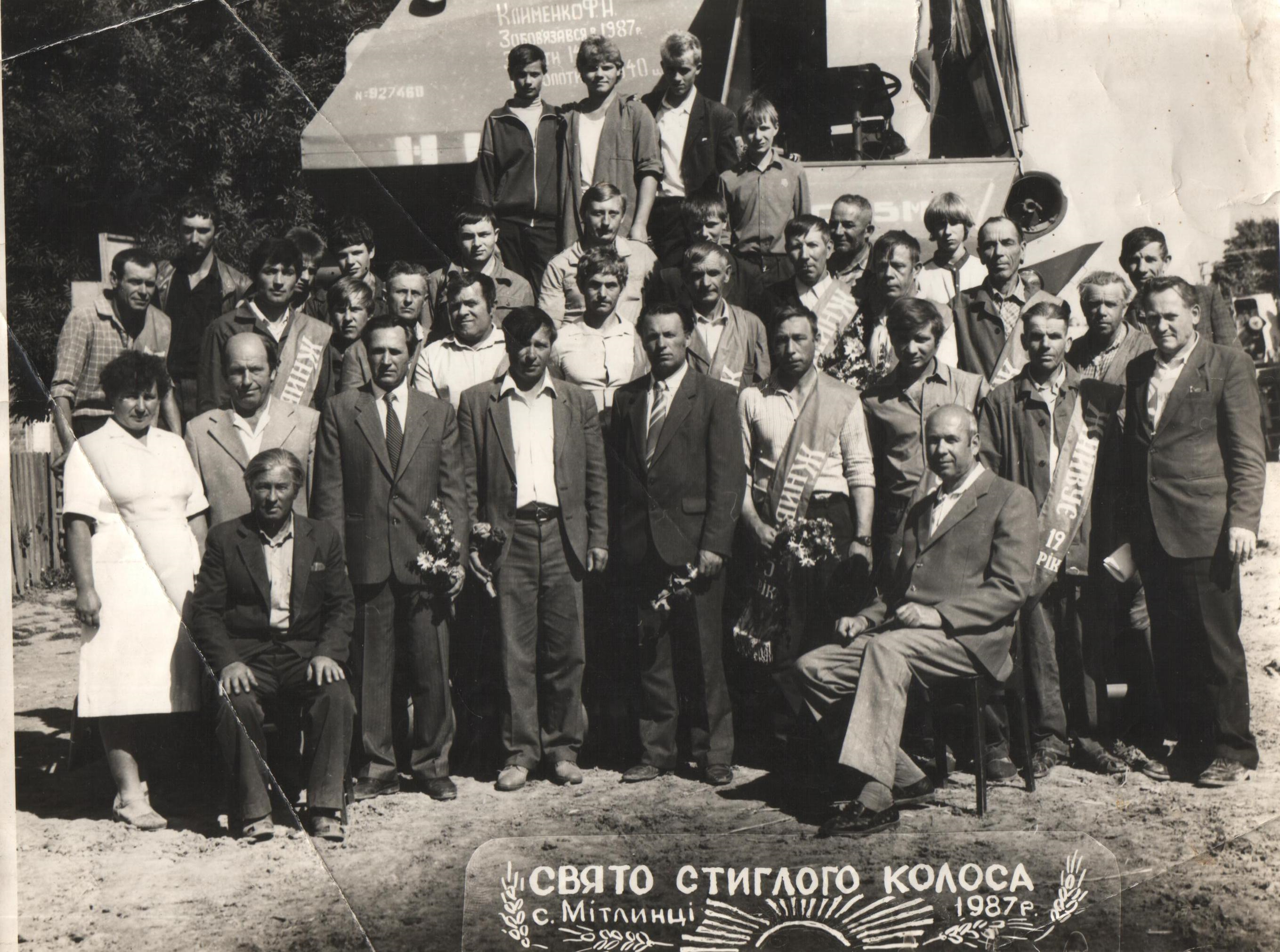 Саято стиглого колоса 1987р.